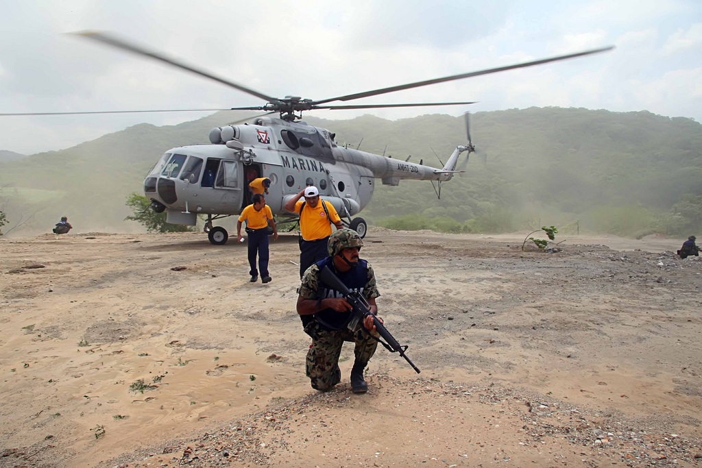 Mexican Navy Mi-17 with RDR-1500B Radar and FLIR Star SAFIRE II.